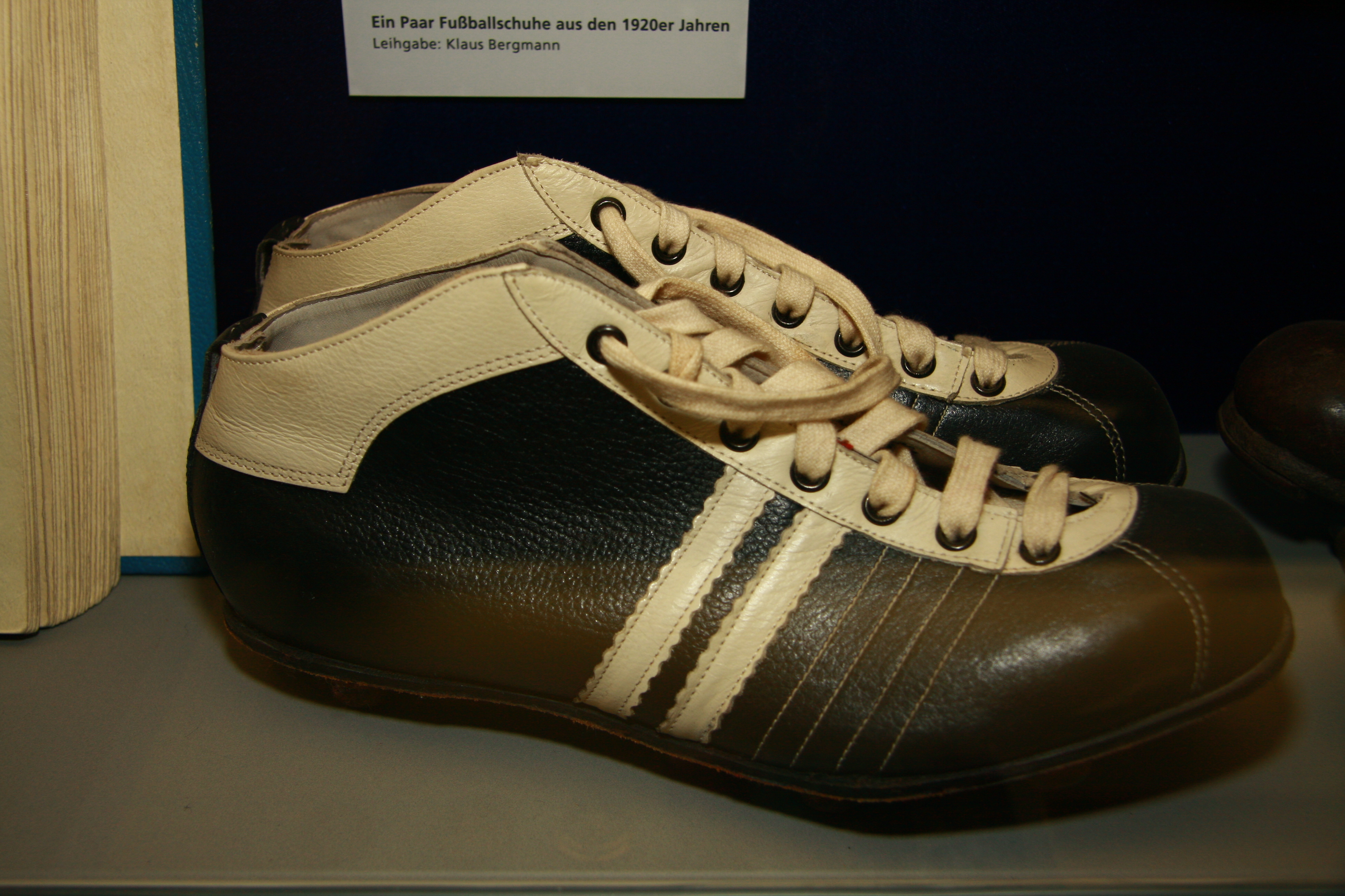 vintage Soccer boots from the 1920s, on display at the museum in the Arena AufSchalke